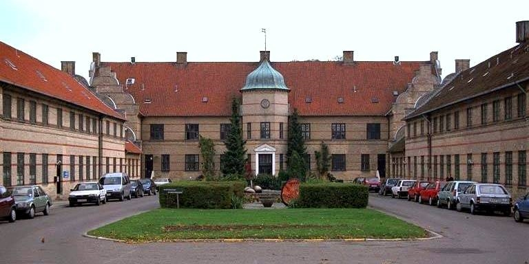 Risskov Psykiatriske Hospital or Jydske Asyl